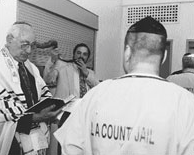 Rabbi Zvi Dershowitz leads services at the Twin Towers Correctional Facility and the Men's Central Jail in Los Angeles on September 21, 2000, shortly before Rosh Hashanah (the Jewish New Year). Rabbi Dershowitz served as the Board of Rabbis' chaplain to the L.A. county jail system for many years.